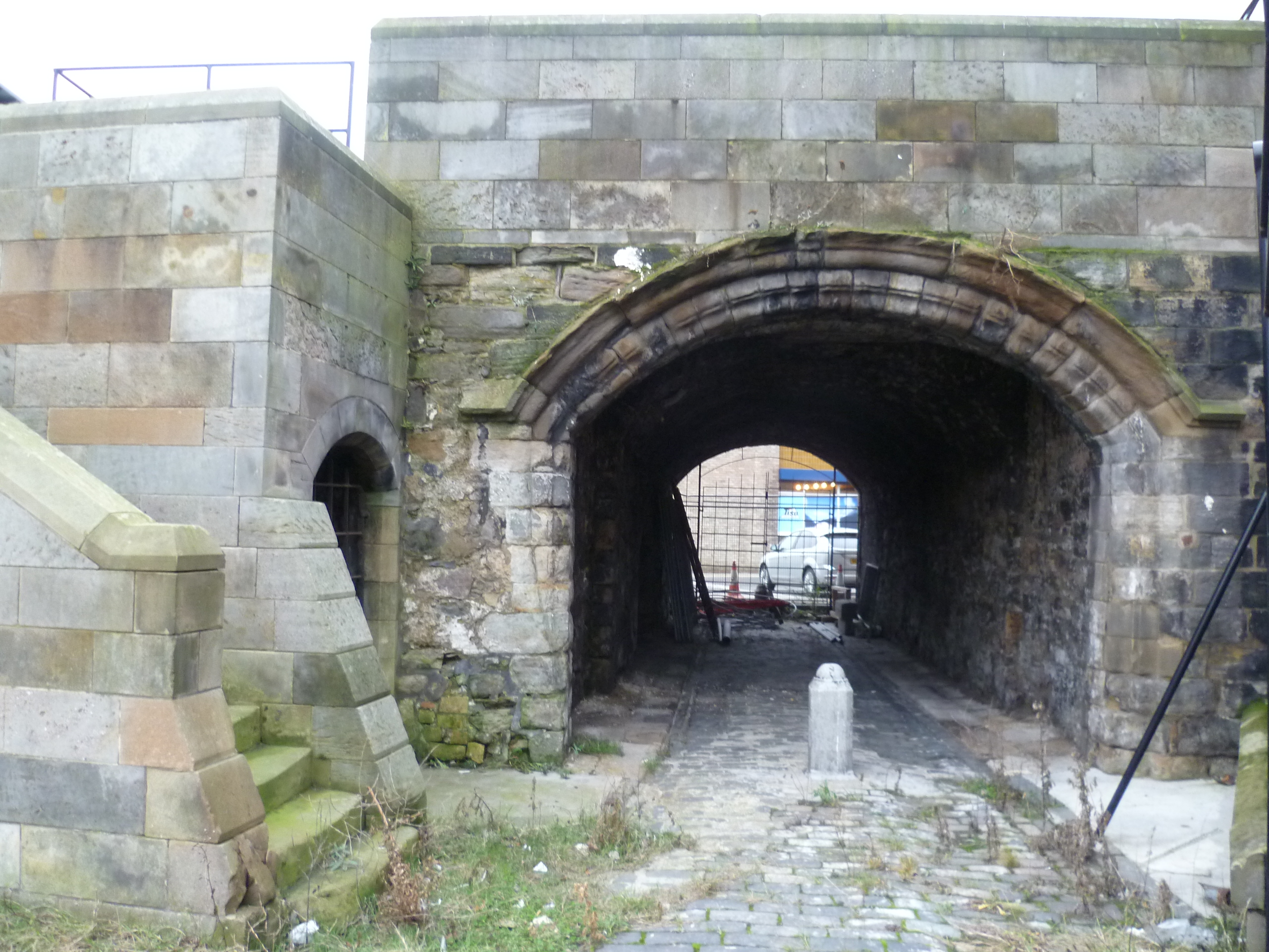 This tranced gateway (with some reconstruction on the left) is all that remains of Cromwell's fort at Leith. In 1656, Edinburgh was given the choice between paying for the building of this fort to control the trade of Leith or losing its jurisdiction over the port. The council advanced 60,000 pounds Scots towards its cost. When, after the Restoration, it became the property of the earl of Lauderdale, who threatened to create his own burgh of barony on this part of Leith, the council (i.e. of Edinburgh) had to pay the same amount, £5,000 sterling, to re-purchase the land.